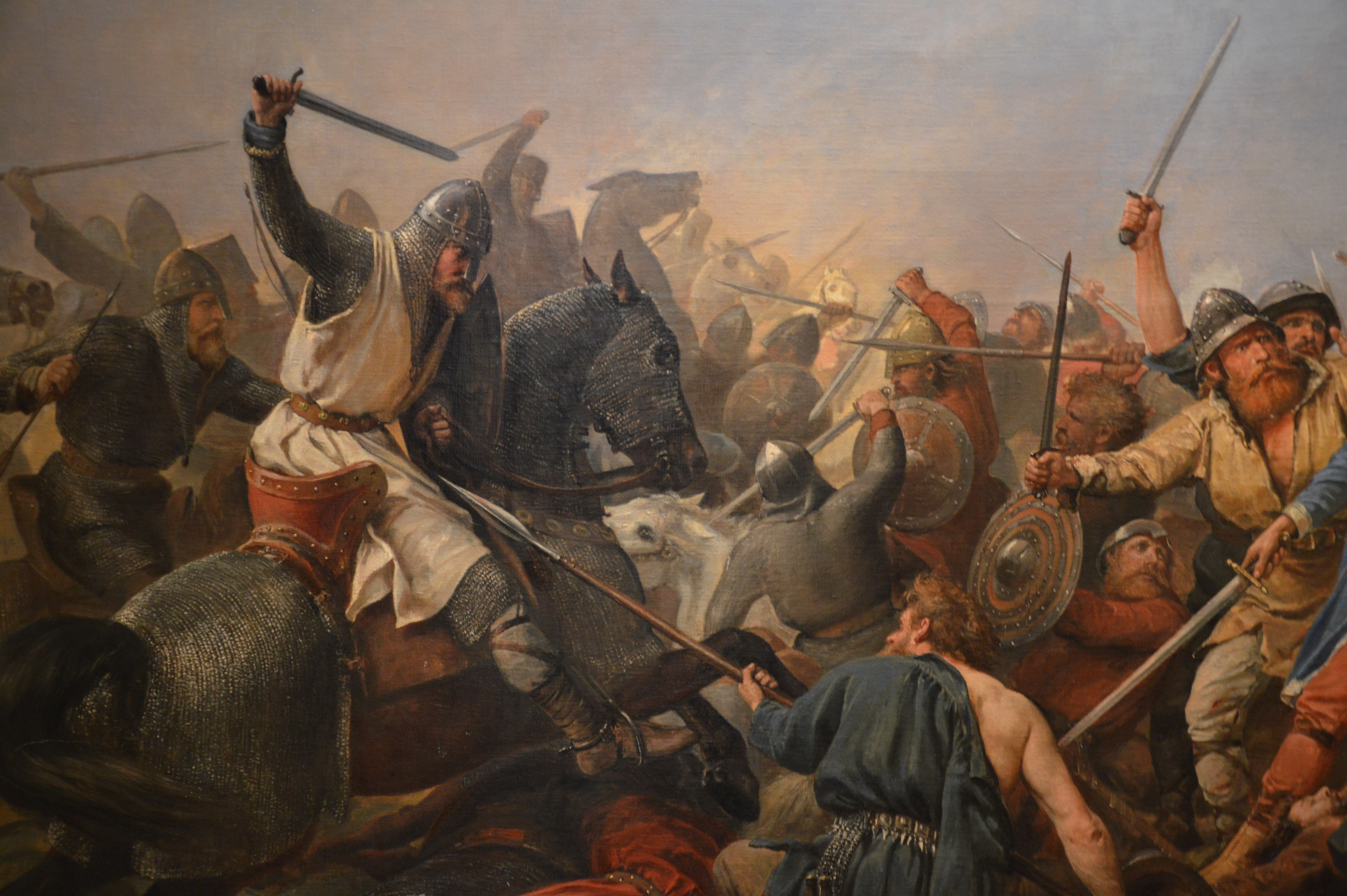 Detail of "The Battle of Stamford Bridge"